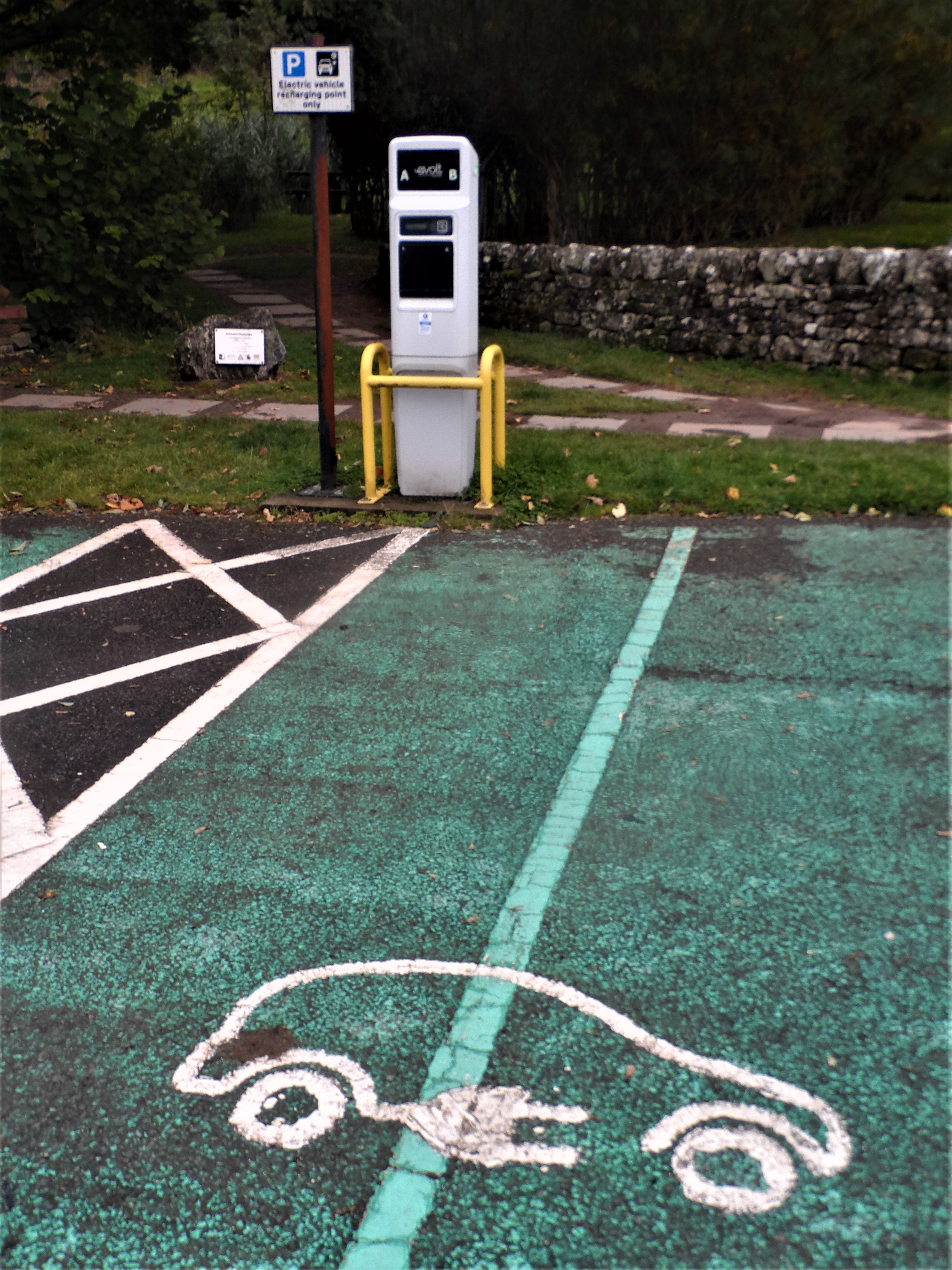 Electric car charge point